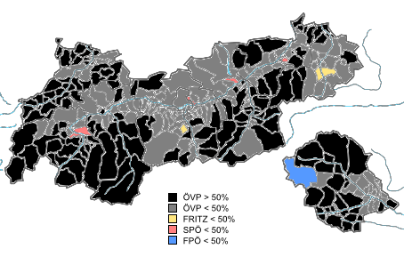 Tyrolean state election 2008